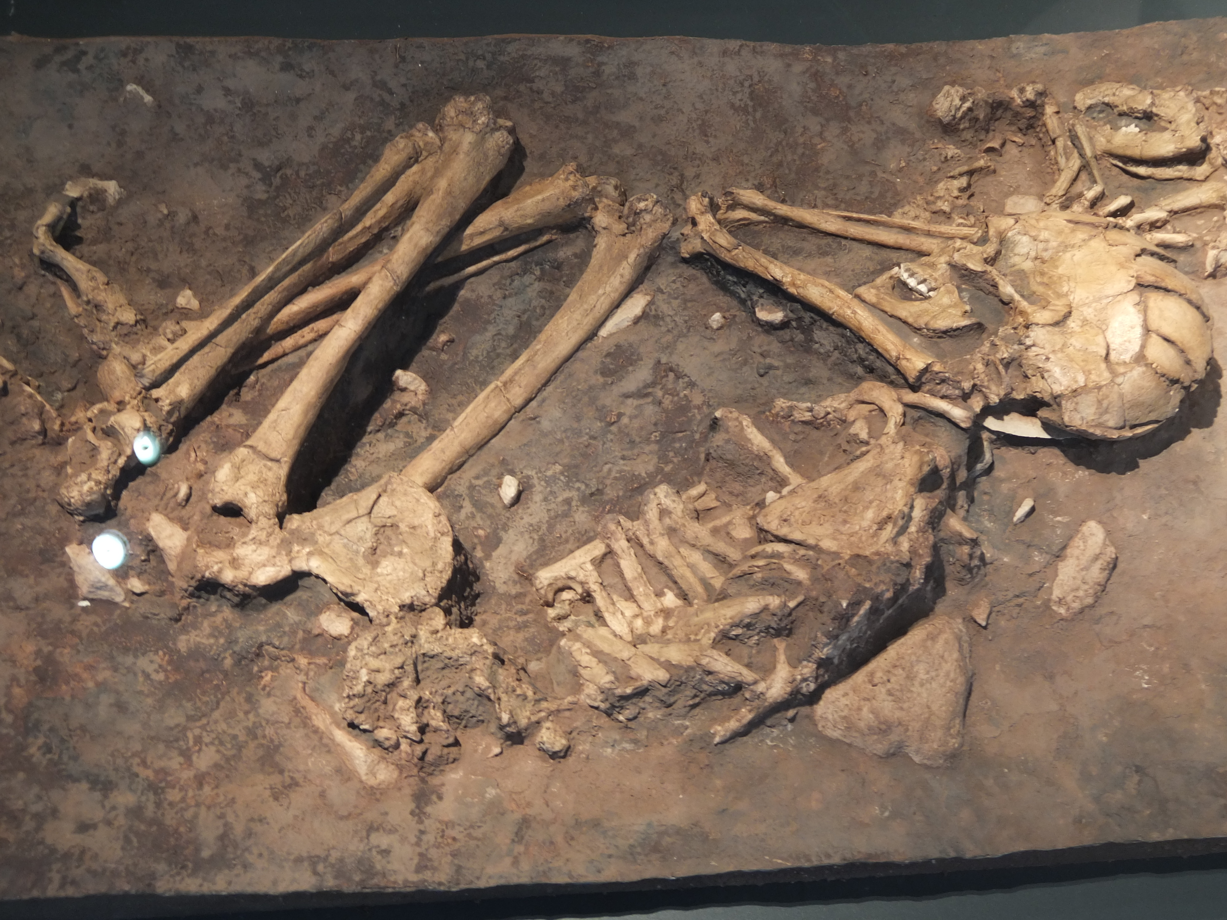 Skeleton of woman said to be from the paleolithic period, found in Israel